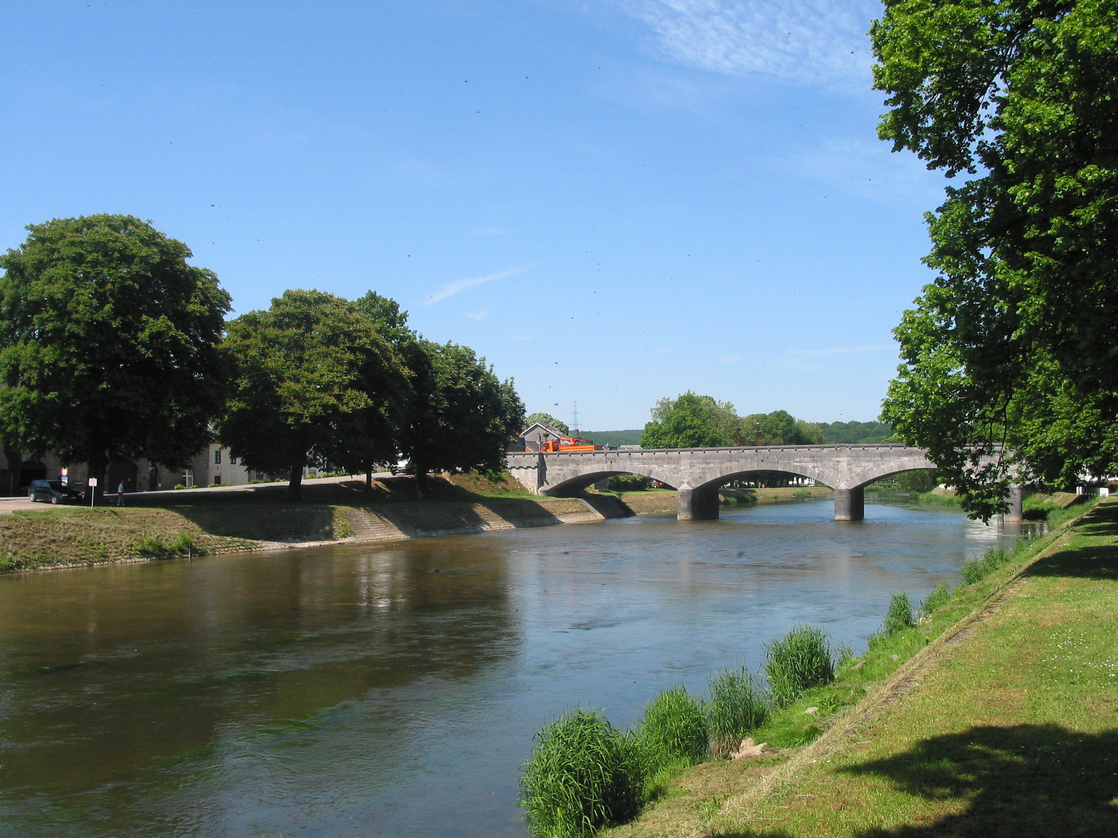 Hamoir (Belgium), the bridge on the Ourthe river.